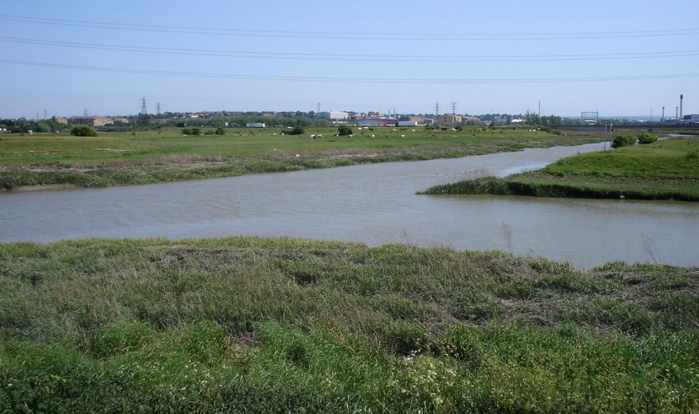 The confluence of the River Darent (left) and the River Cray (right) on Crayford Marshes, England. Category:Images of England